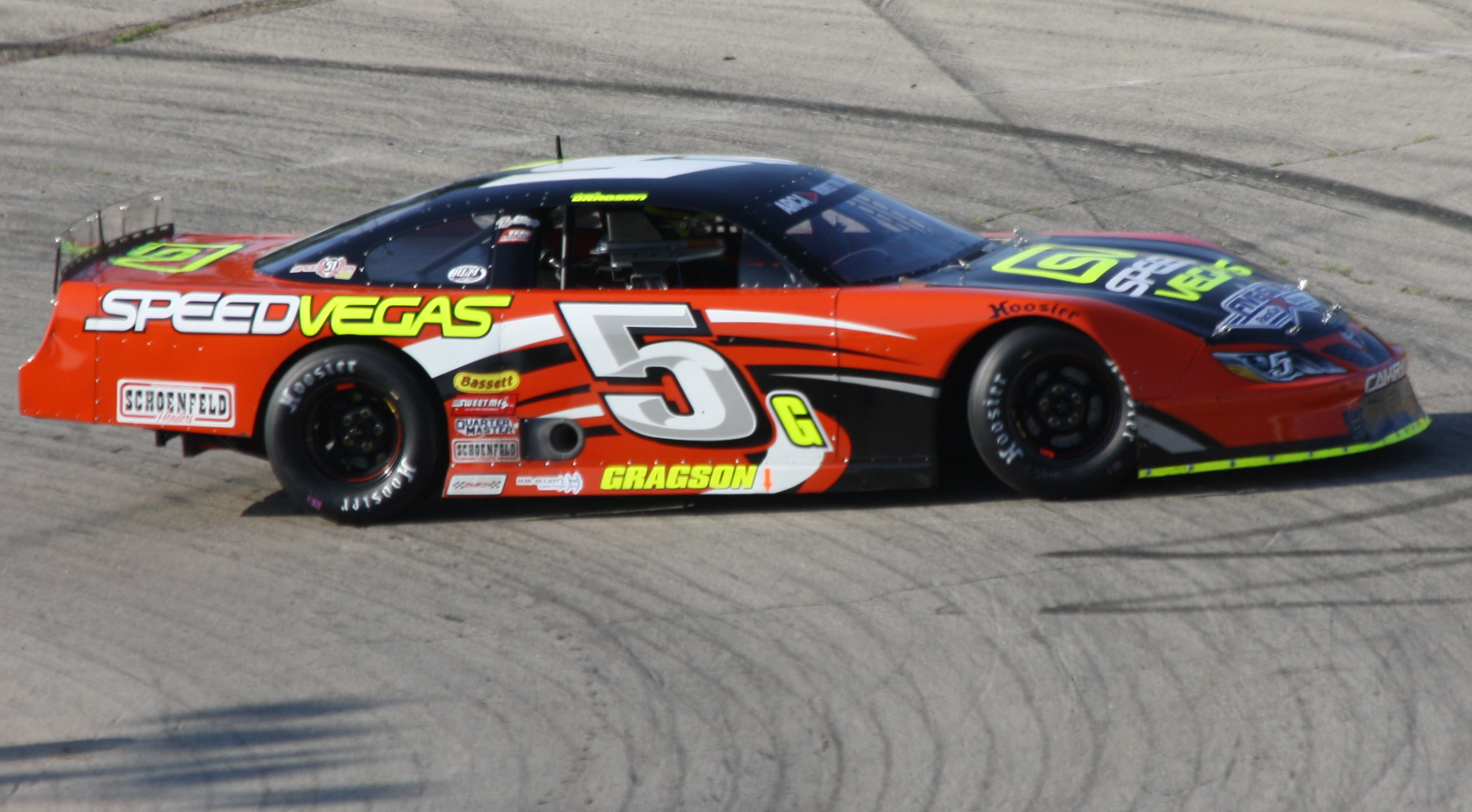 The ARCA Midwest Tour car of Noah Gragson turning onto the track during qualifying at Wisconsin International Raceway.